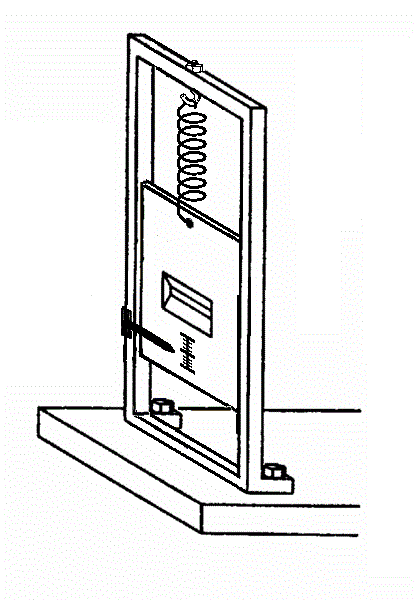 This is an adaptation of the famous Bohr modification of the Einstein slit thought experiment.